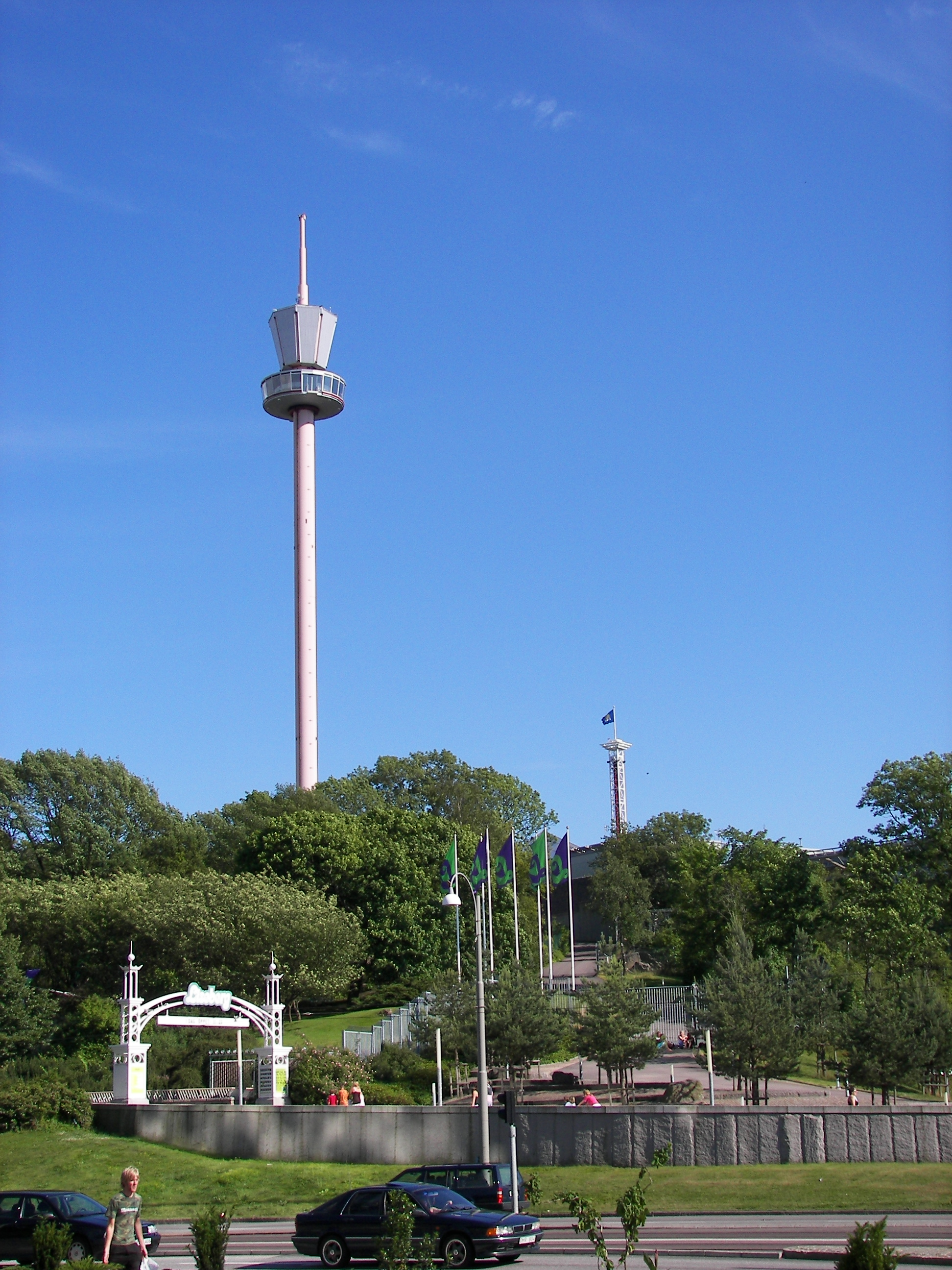 Lisberg in Göteborg, Sweden, as seen from Svenska Mässan/Korsvägen